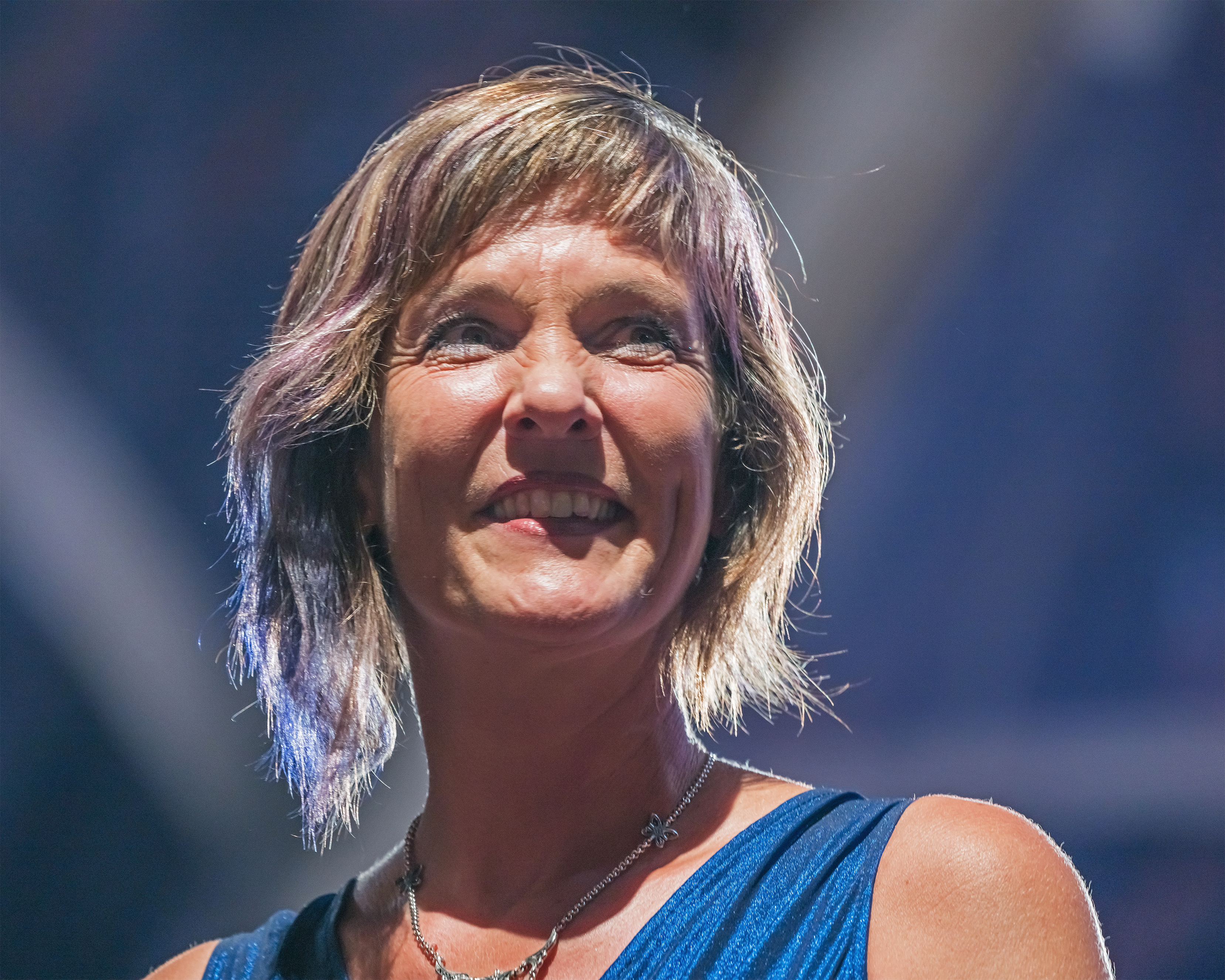 On 24 August 2019 the Berlin Philharmonics gave an open air concert at Brandenburg Gate in Berlin, with an audience of nearly 35,000 people. The conductor was Kirill Petrenko from Russia. The orchestra performed Beethoven's Symphony No. 9 D minor Op. 125.